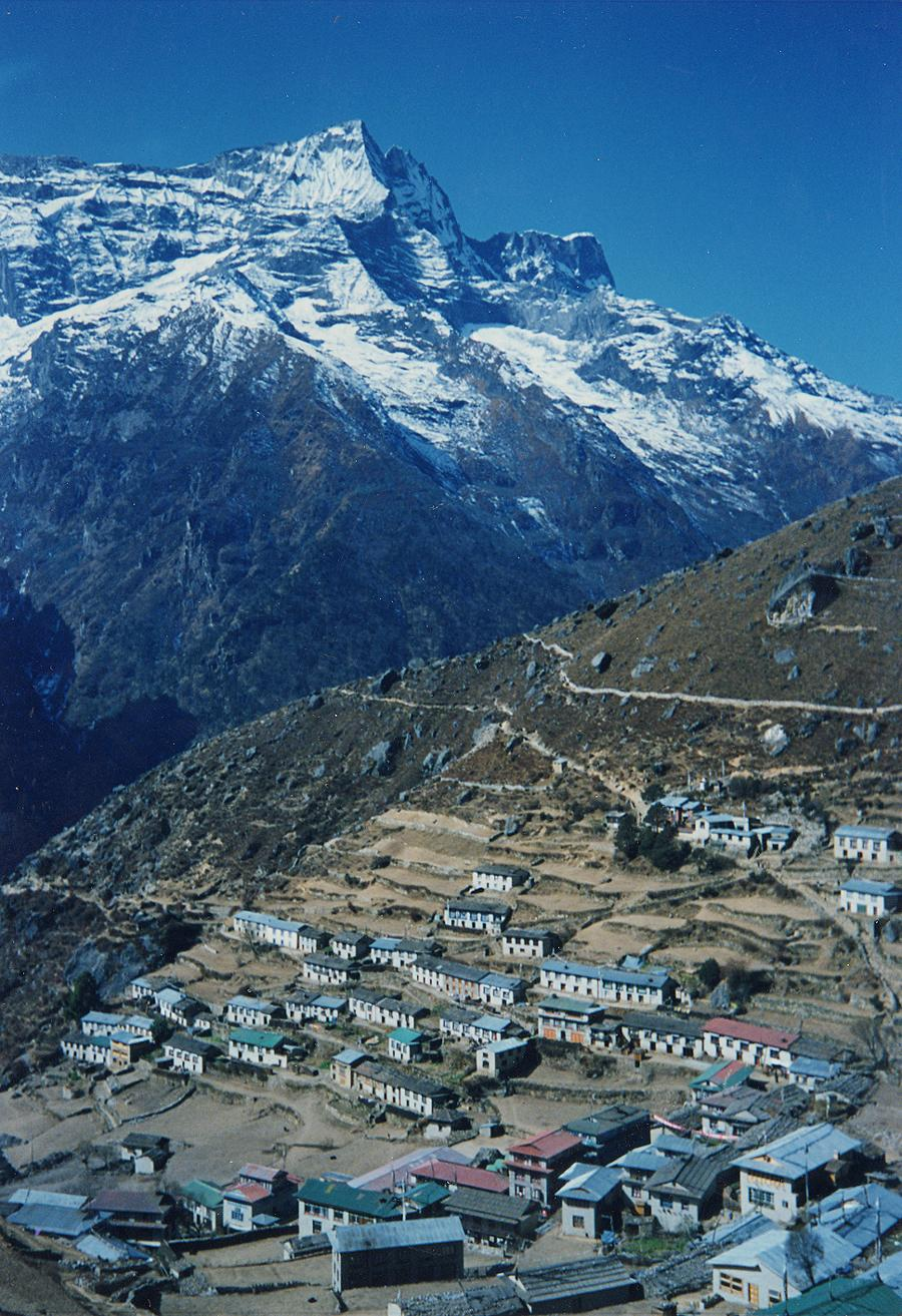 Namche Bazaar, Nepal (large version) Permission granted to use under terms of GFDL by the image owner. Image downloaded from: Owner (els) granted permission, via email reply on Nov 19, 2003, to use the image on Wikipedia. -- RedWolf 04:05, Nov 20, 2003 (UTC) The original image size was 1.6MB. I re-saved the image using 75% quality ratio to reduce file size. -- RedWolf 04:07, Nov 20, 2003 (UTC)